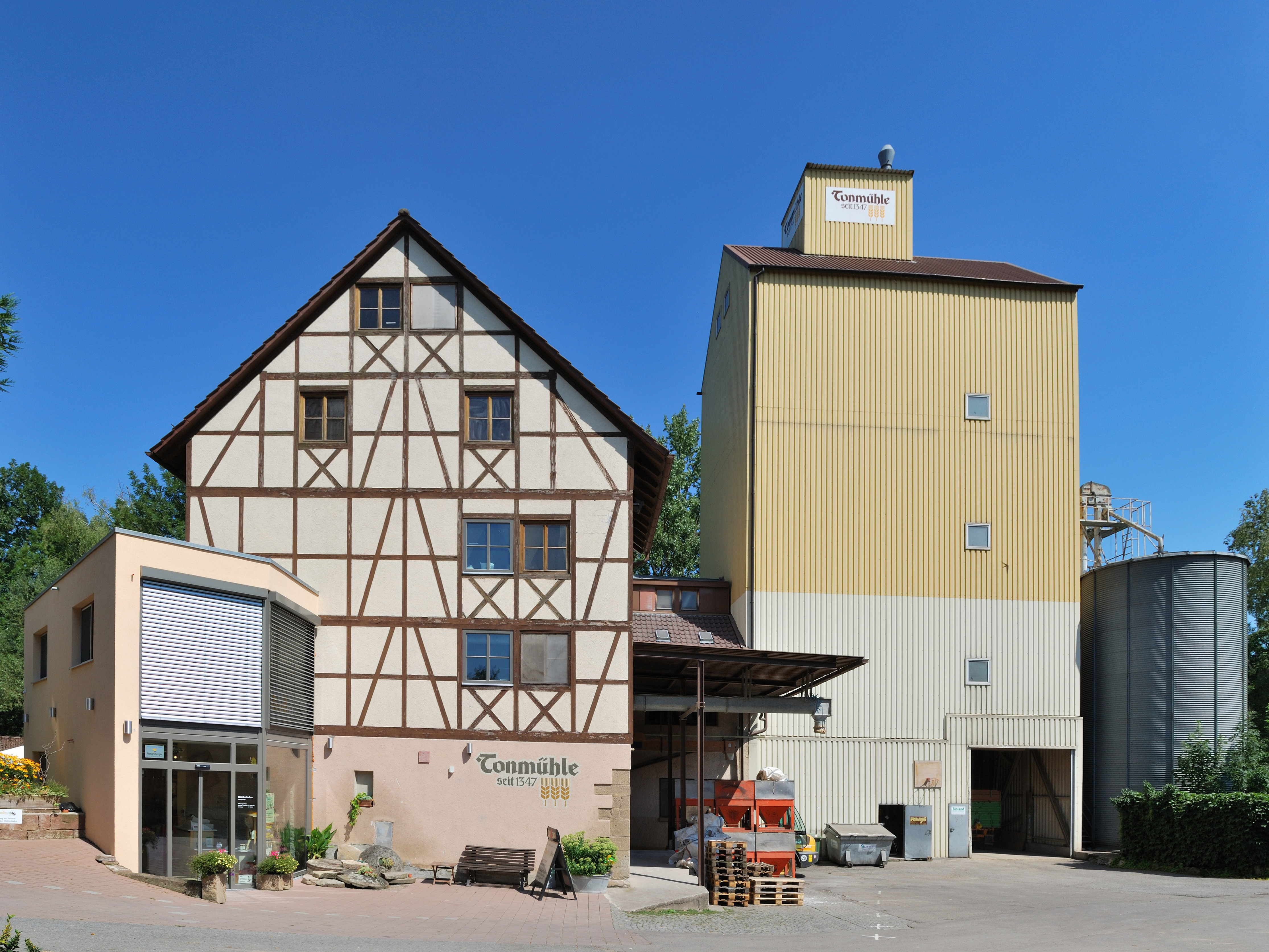 Tonmühle on the river Glems in Ditzingen, Baden-Württemberg, Germany. The watermill was first mentionned in 1347. It was rebuilt in 1789 and worked originally with three water wheels. The mill works since 1983 with a turbine with a maximum power of 30 HP.